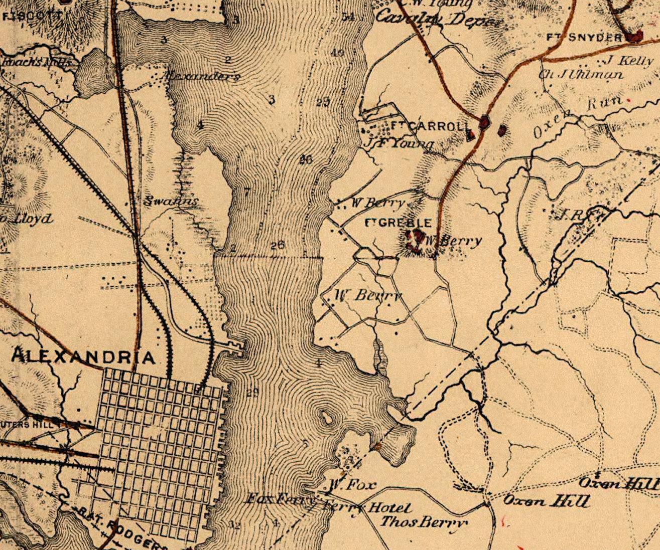 Crop of larger 1865 map of the Civil War defenses of Washington, D.C. produced by the U.S. War Department.